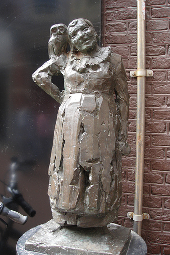 Sculpture Bronze Malle Babbe, by Dutch sculpter Kees Verkade. Date: 1978 Location: Barteljorisstraat, Haarlem, The Netherlands